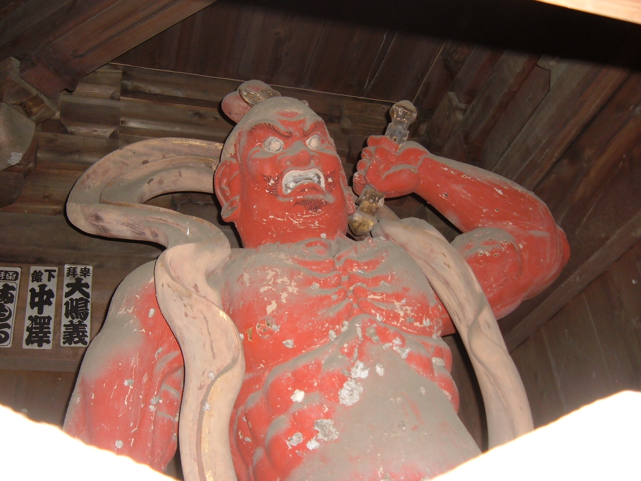 One of the guardians of Saimyoji Temple.